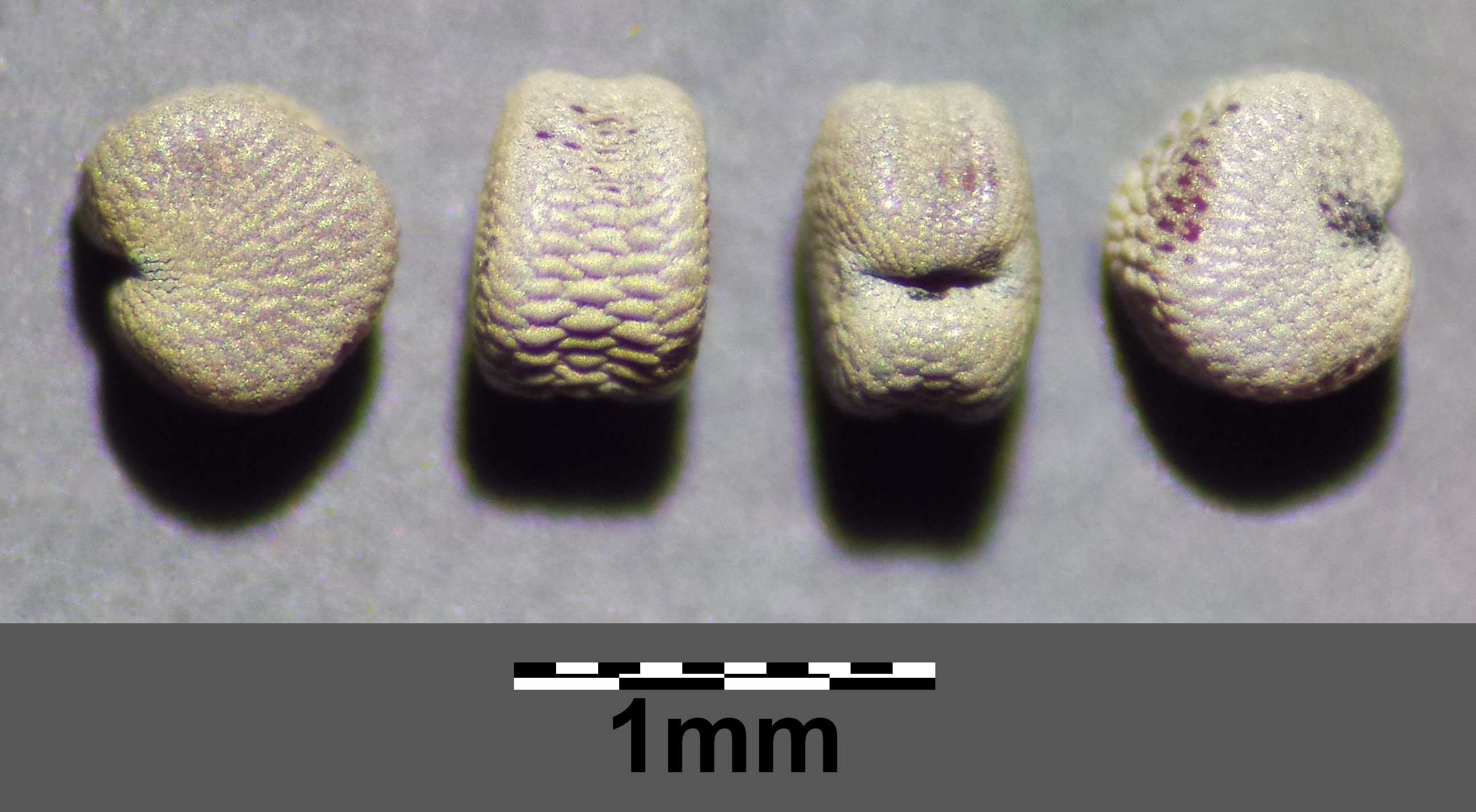 Seeds (leg.: 2015-08-01) Taxonym: Silene conica ss Fischer et al. EfÖLS 2008 ISBN 978-3-85474-187-9 Location: Haulesbergen, district Mistelbach, Lower Austria - ca. 200 m a.s.l. Habitat: dry grassland